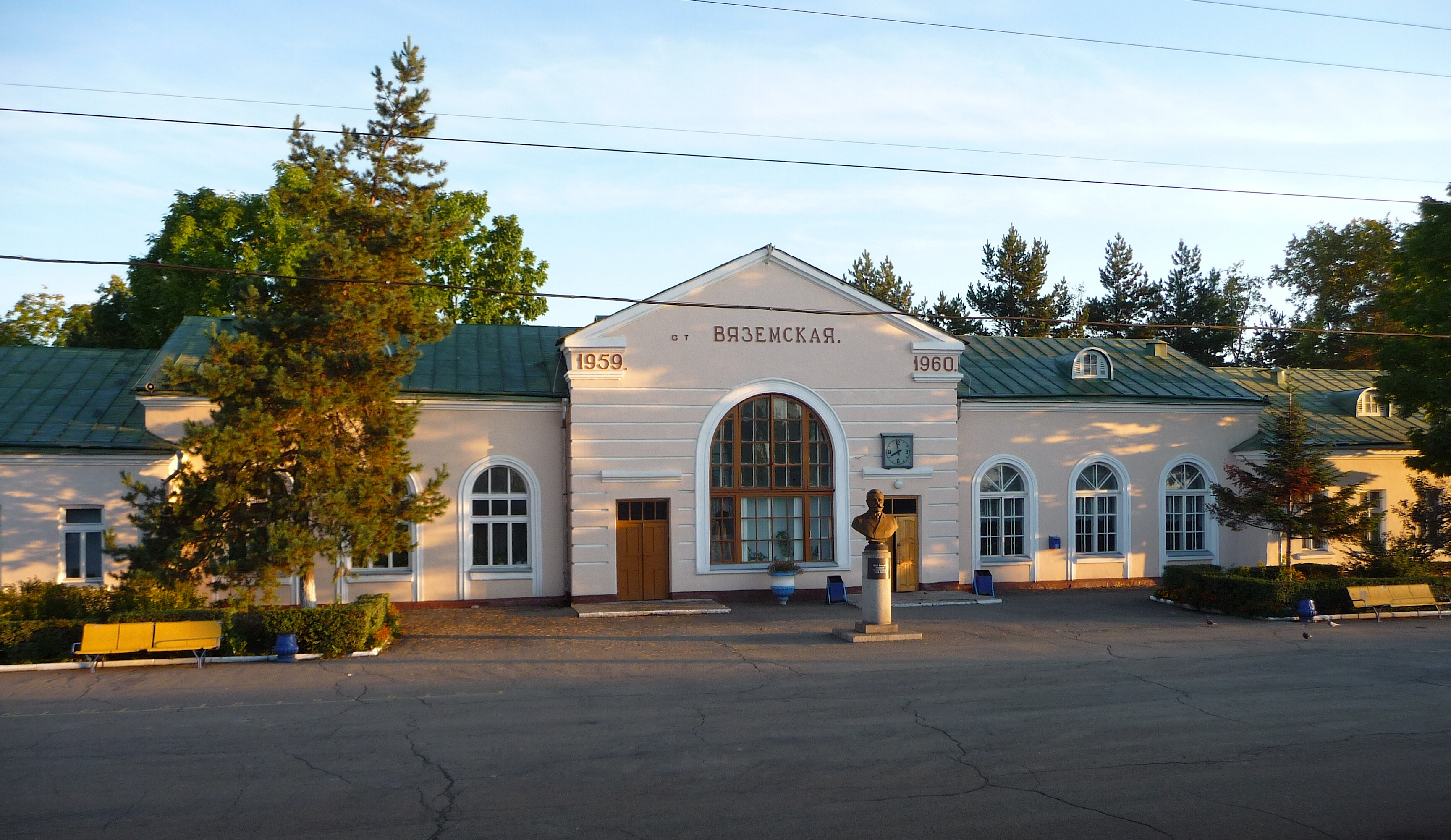 Station Vyazemskaya (Khabarovsk Krai, Russia).